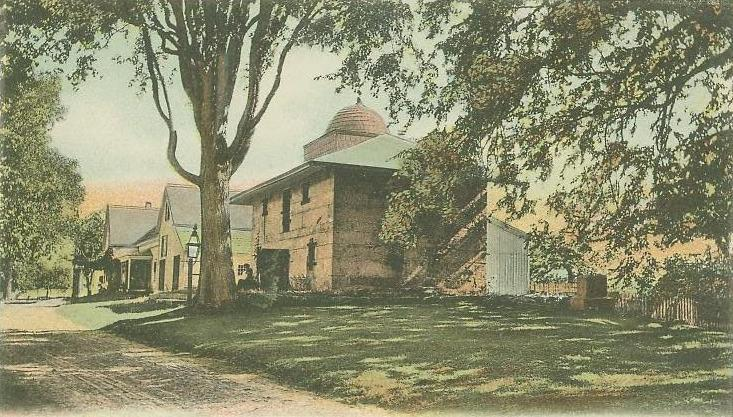 Street View, Paris Hill, Maine. This shows the old Oxford County Jail, built in 1822.